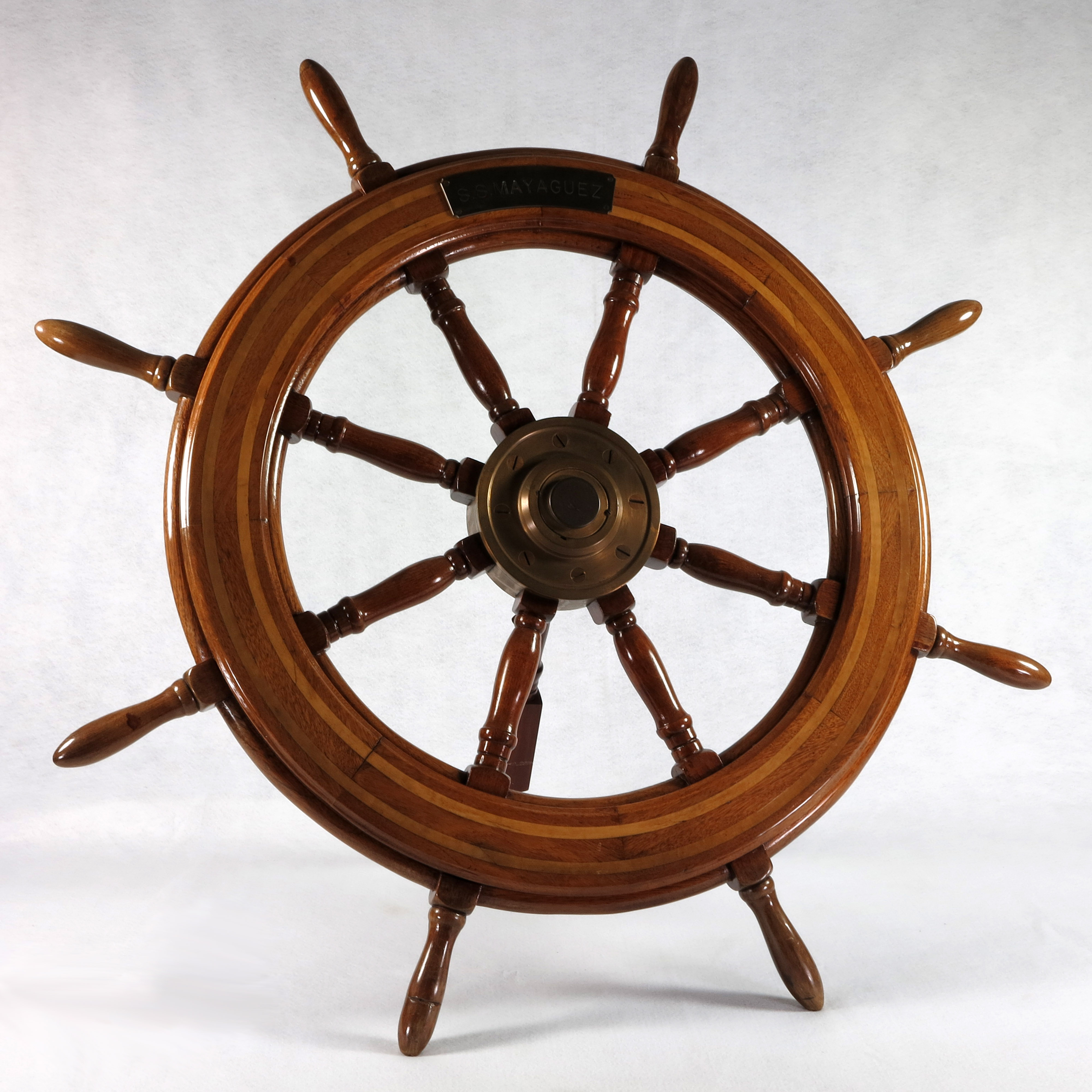 Steering wheel from the SS Mayaguez personally presented to President Gerald R. Ford in the Oval Office by the ship’s captain, Charles Miller.